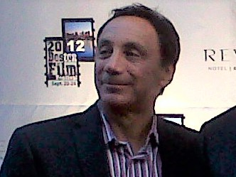 A photo of Stephen Morro at the 2012 Boston Film Festival.